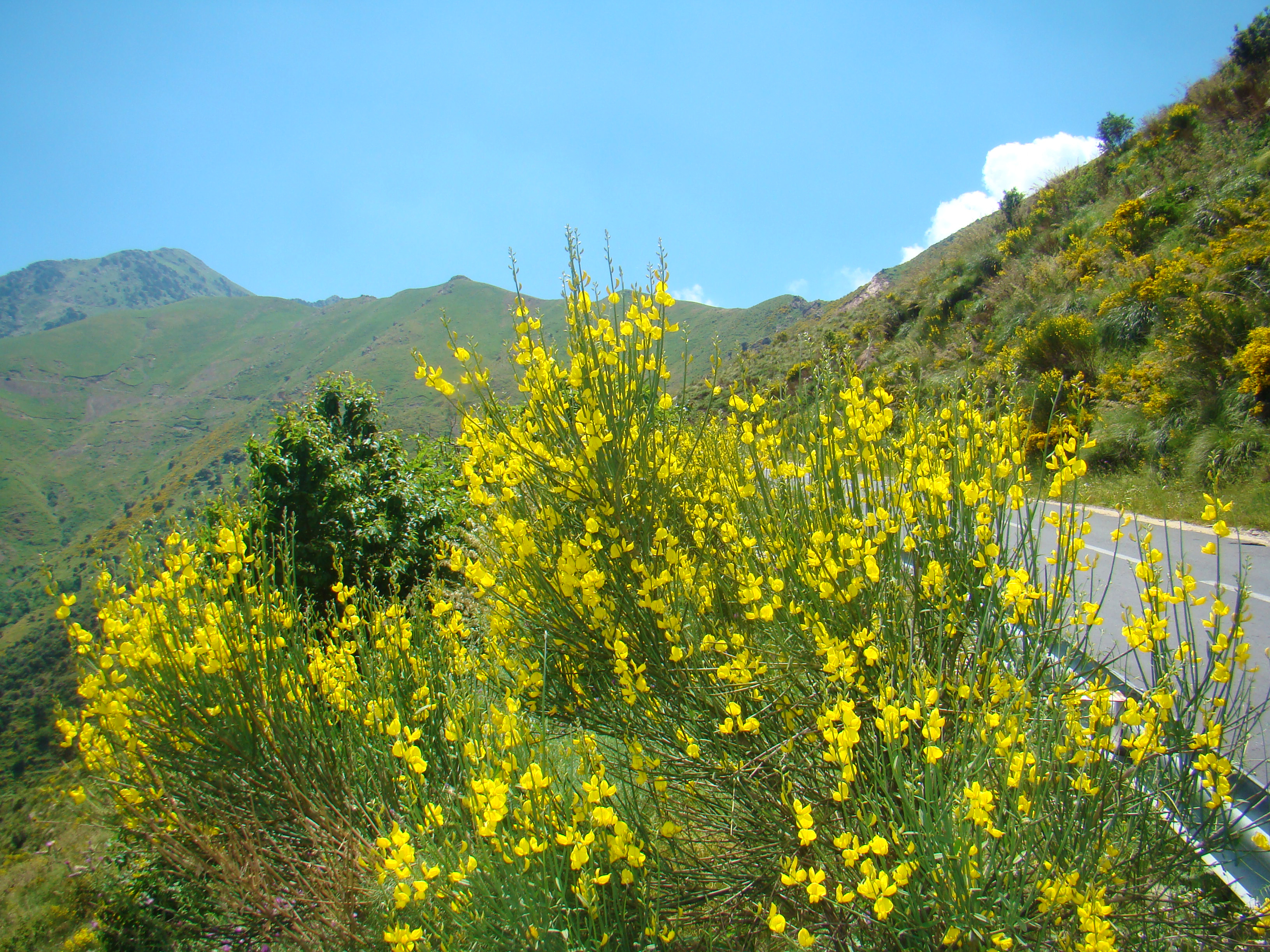 National parc of Djurjura in Algeria